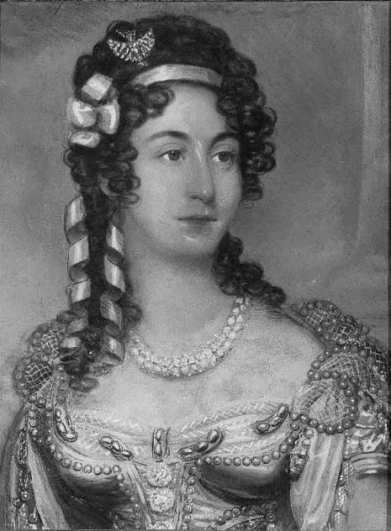 Louisa Chatterley as Lady Teazle in The School for Scandal by Rose Emma Drummond 1835